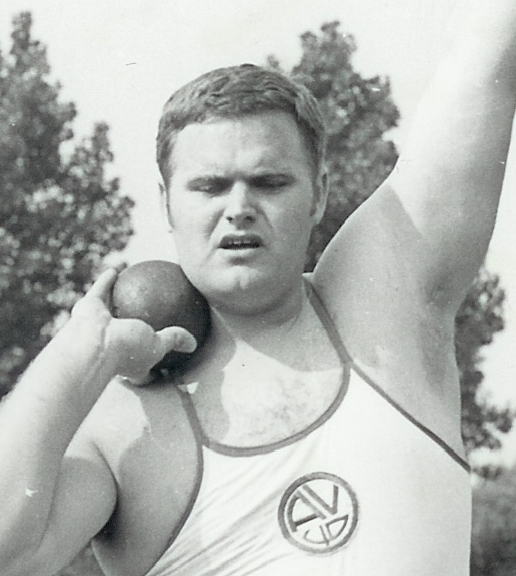 Dutch Weightlifter/shot-putter Piet van der Kruk